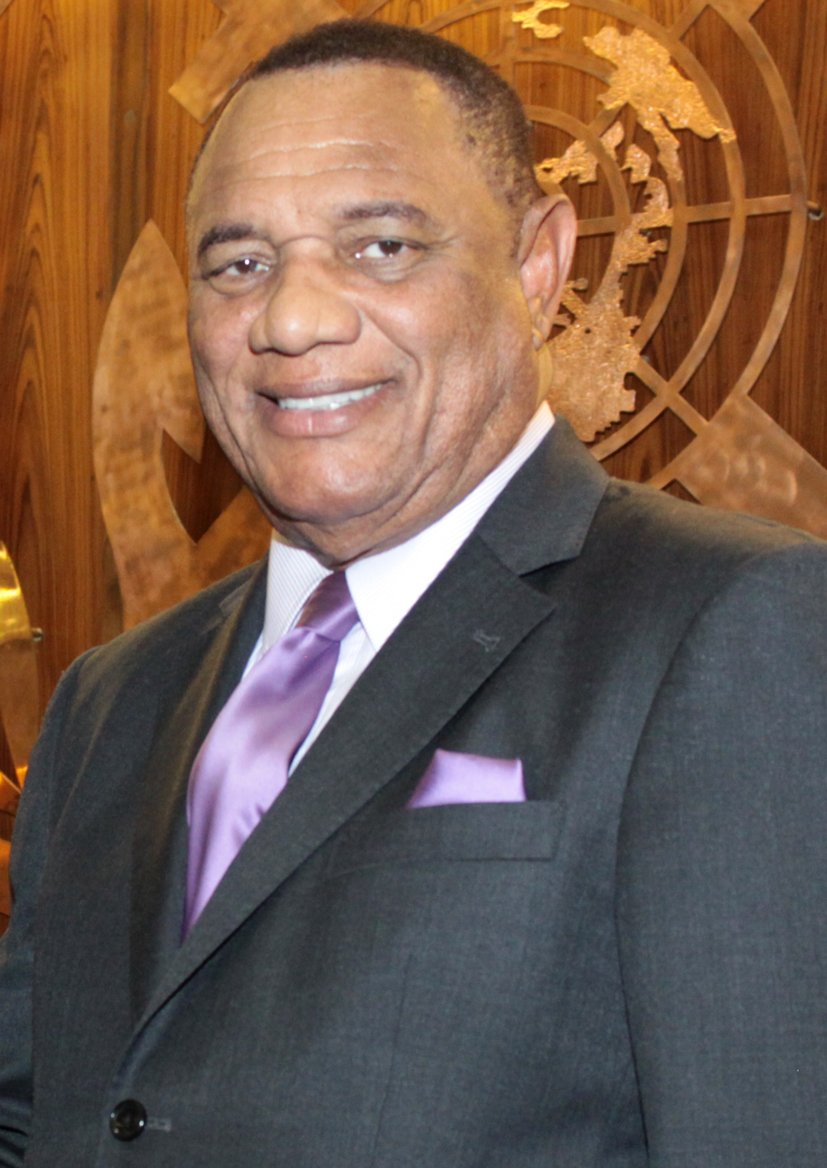 IMO Secretary-General with the Prime Minister of the Bahamas, the Right Honourable Perry Gladstone Christie. At the ceremony for Dr. Thomas Mensah's award of the International Maritime Prize for 2012, at IMO HQ, London, 21/11/2013.